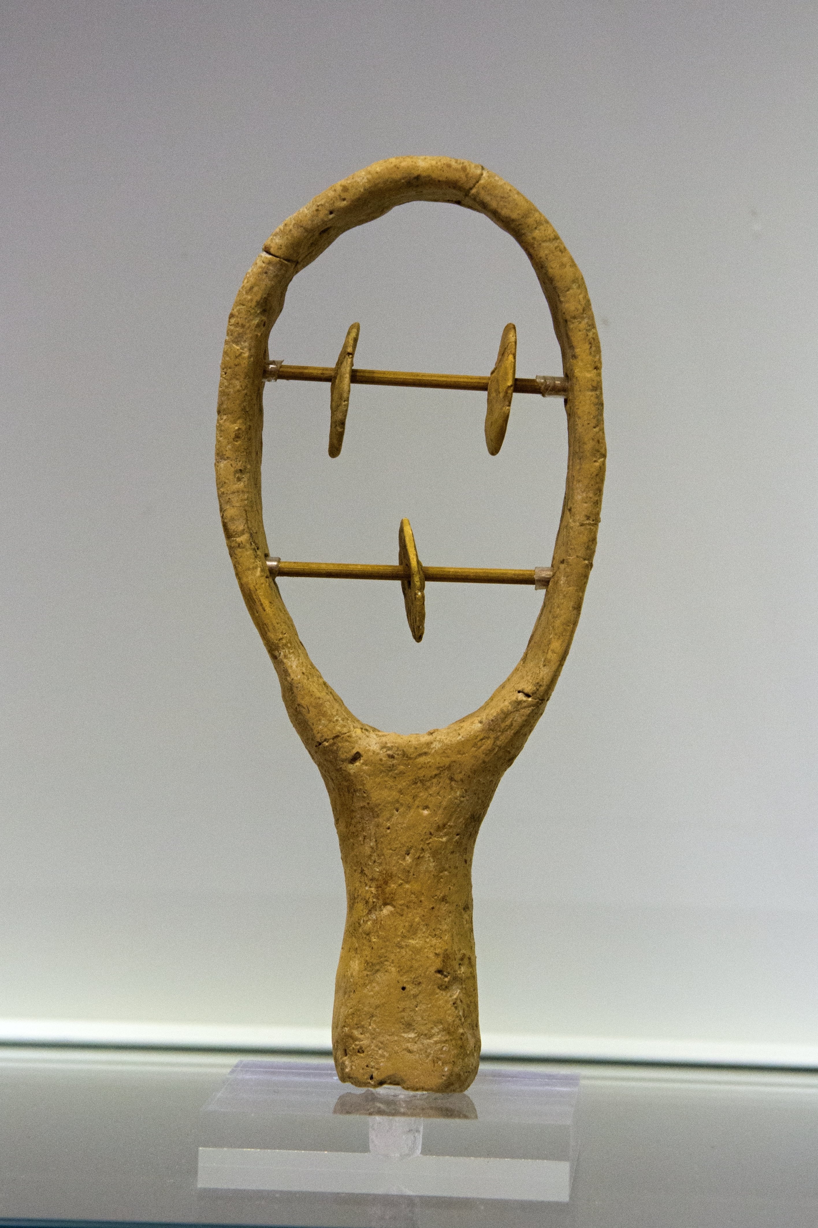 Clay sistrum, a model of a bronze percussion instrument. Phourni near Archanes (Funerary Building 9), 2100-1900 BC. Archaeological Museum of Heraklion.